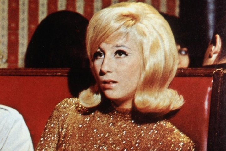 Cher in Good Times (1967)